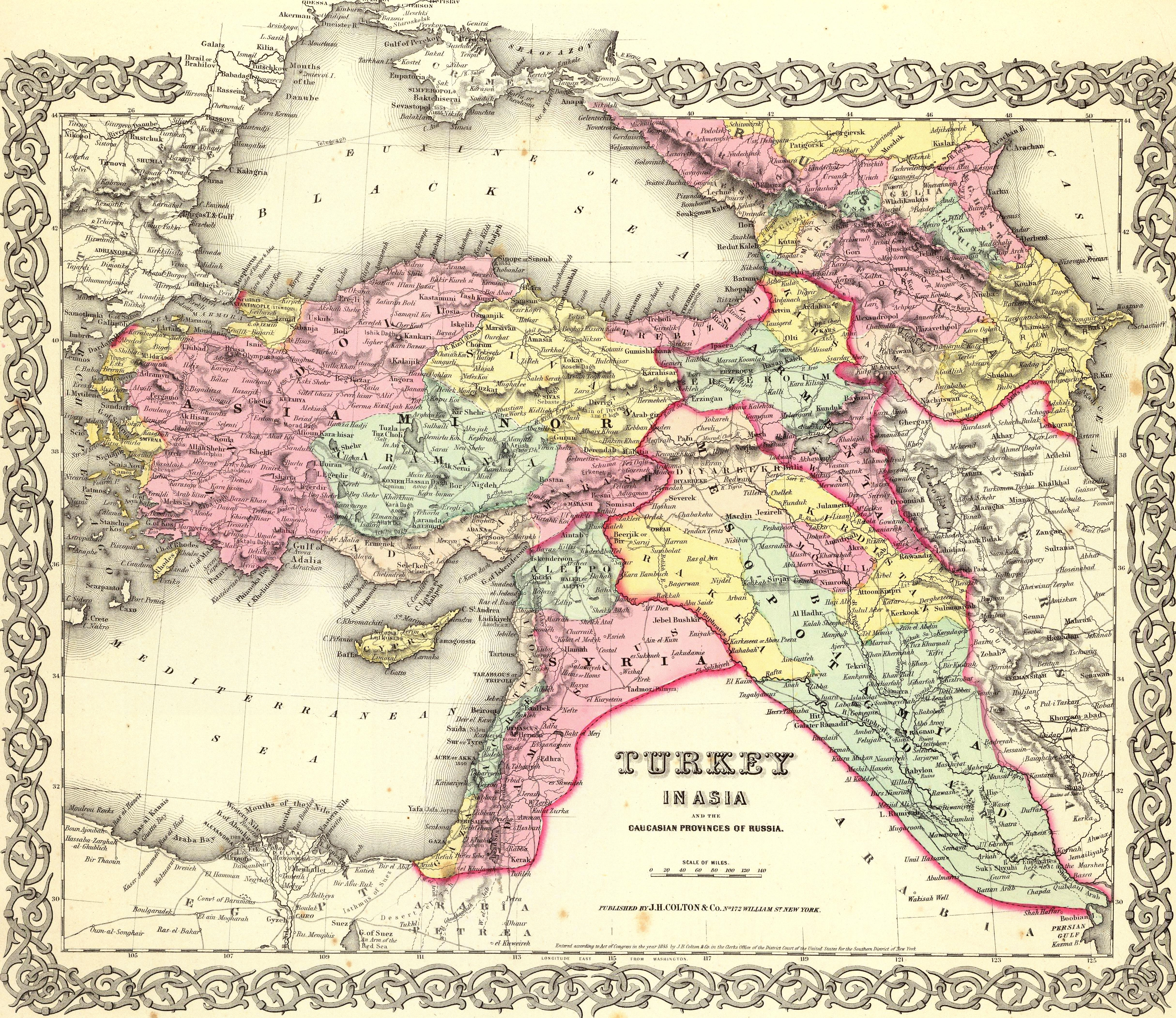 Turkey In Asia And The Caucasian Provinces Of Russia. Published By J.H. Colton & Co. No. 172 William St. New York. Entered ... 1855 by J.H. Colton & Co. ... New York. No. 25